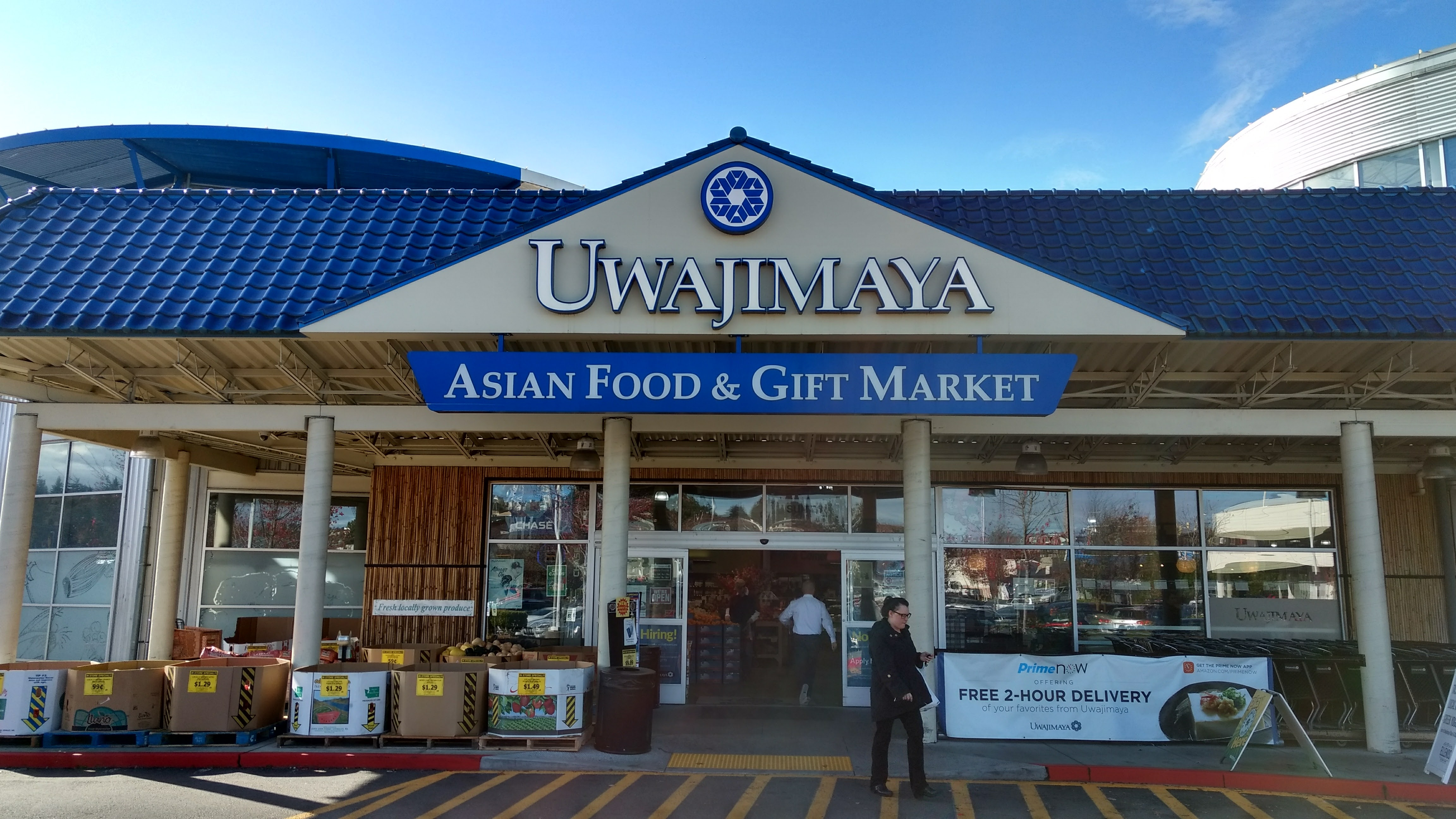 Exterior of the Uwajimaya store near NE 8th Street and I-405 in Bellevue, Washington, fall 2016.